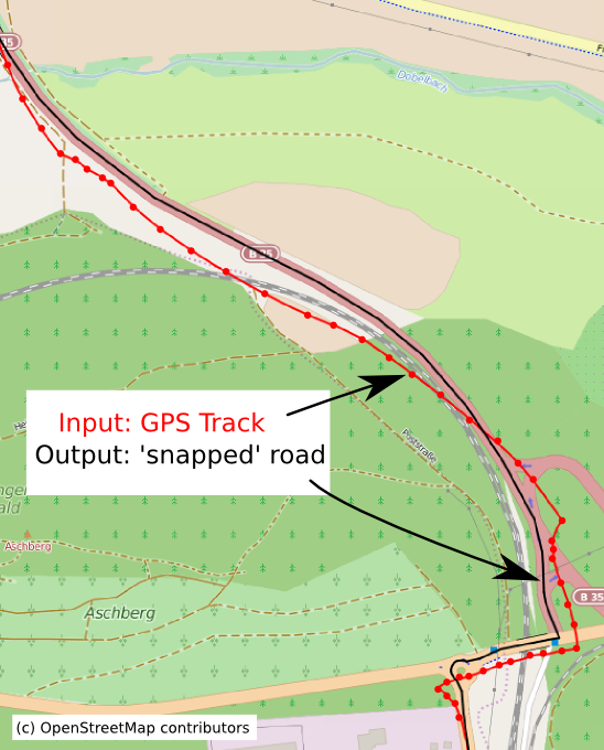 Shows as an example what map matching does This map may be incomplete, and may contain errors. Don't rely solely on it for navigation.